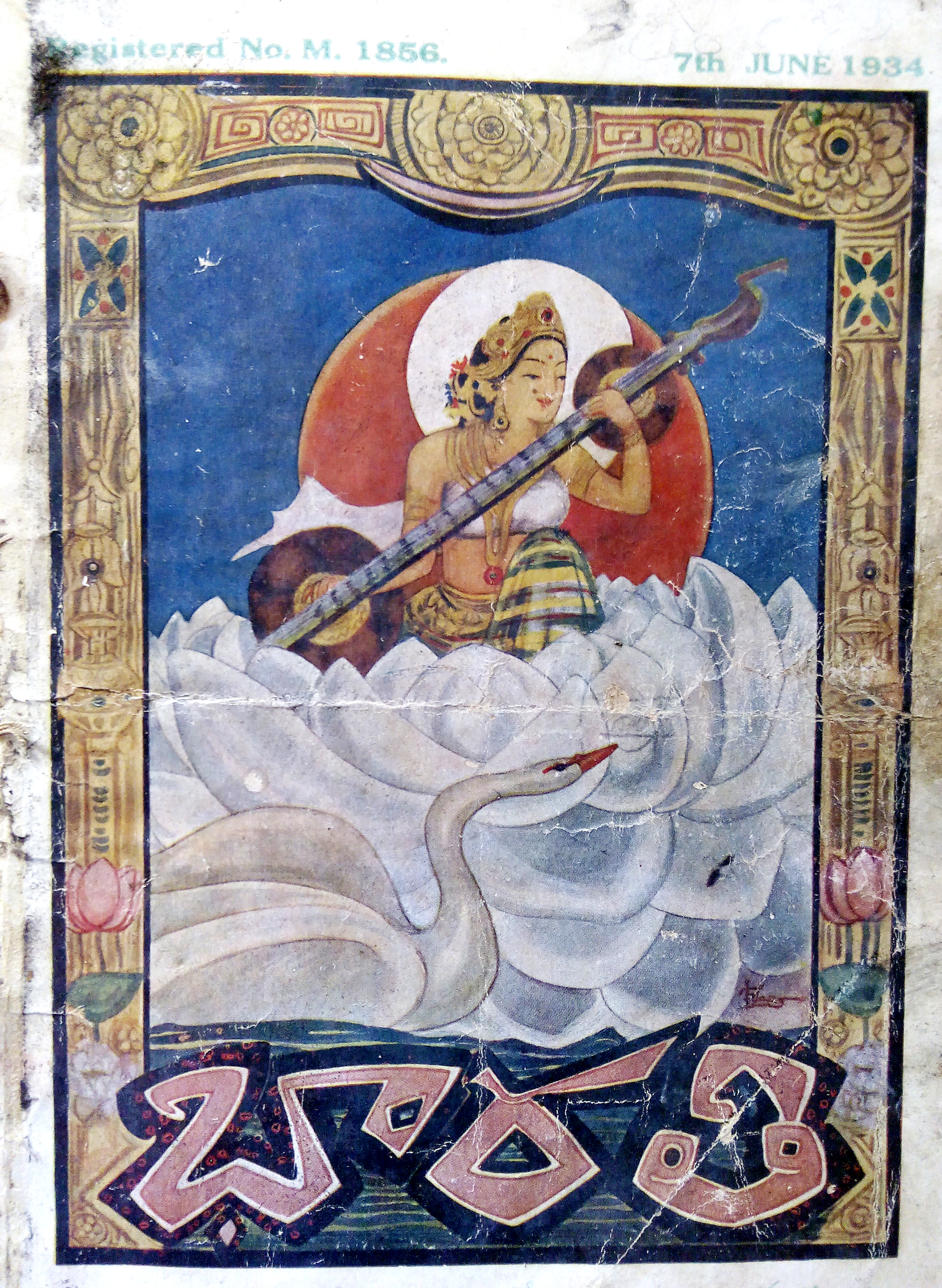 Bharati manthly cover page -2